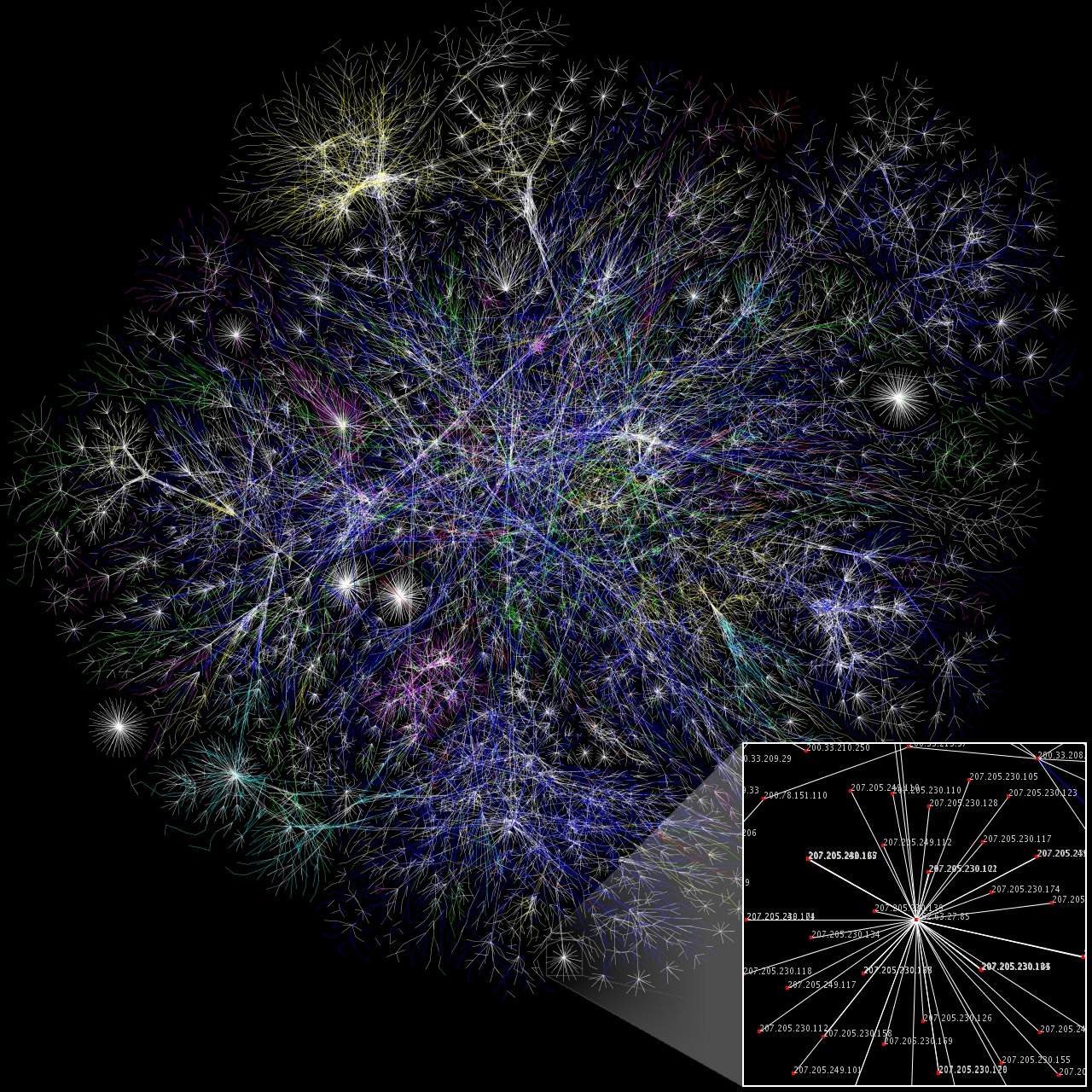 Partial map of the Internet based on the January 15, 2005 data found on . Each line is drawn between two nodes, representing two IP addresses. The length of the lines are indicative of the delay between those two nodes. This graph represents less than 30% of the Class C networks reachable by the data collection program in early 2005. Lines are color-coded according to their corresponding RFC 1918 allocation as follows: Dark blue: net, ca, us Green: com, org Red: mil, gov, edu Yellow: jp, cn, tw, au, de Magenta: uk, it, pl, fr Gold: br, kr, nl White: unknown